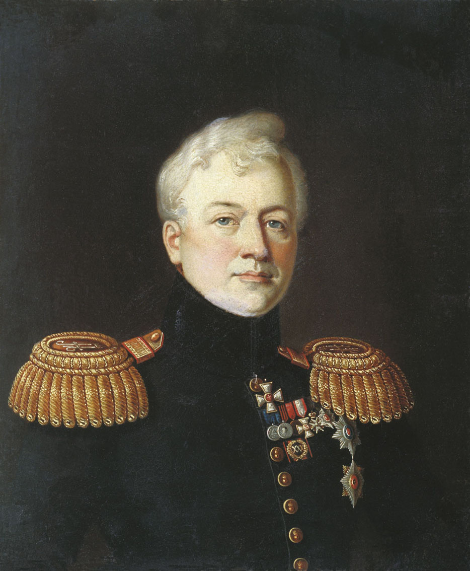 Portrait of Prince D.V. Golitsyn 1834-1835